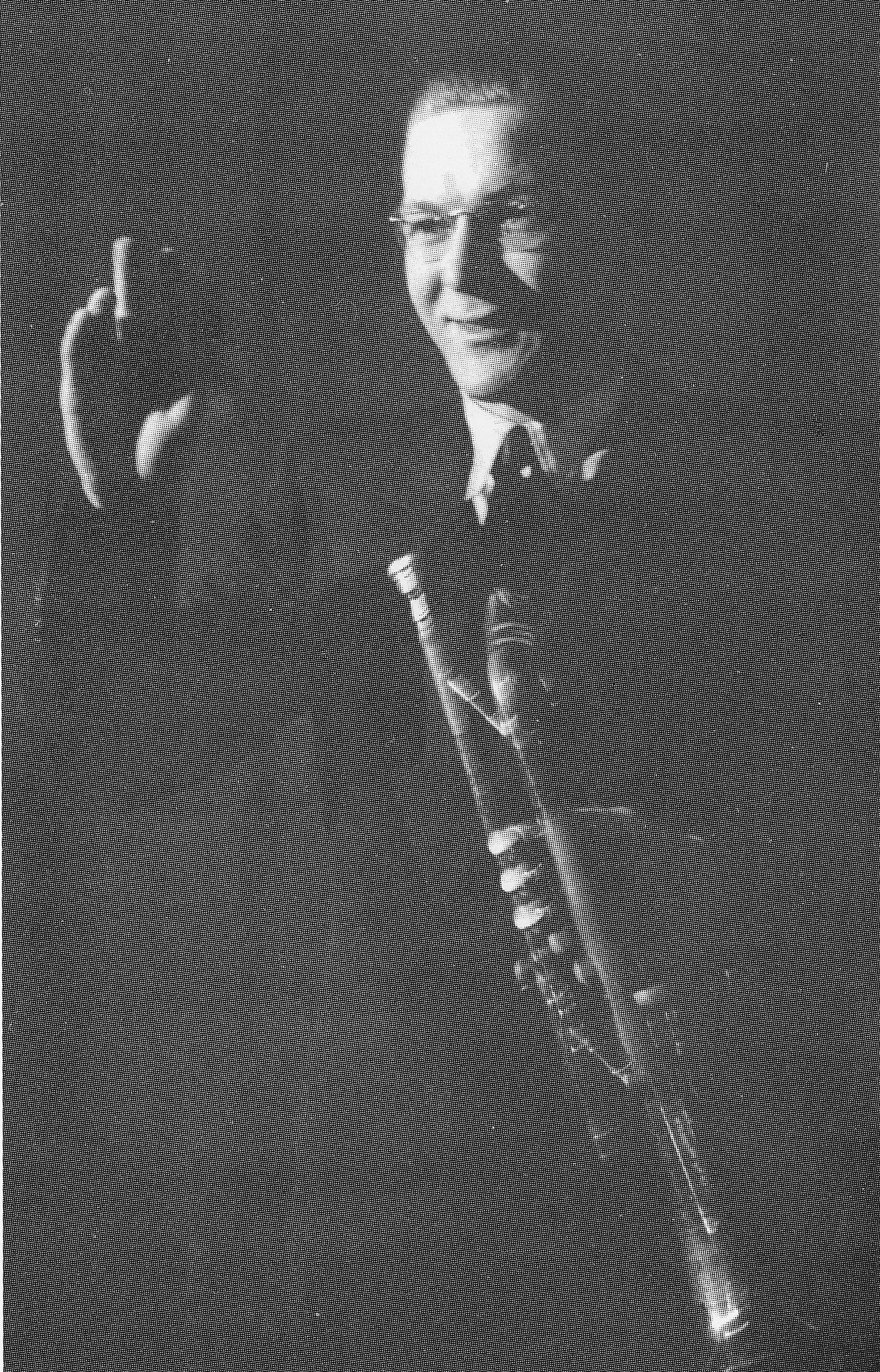 Erkki Aho